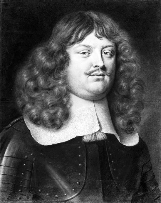 Portrait of Leopold Wilhelm, Margrave of Baden-Baden (1626-1671)